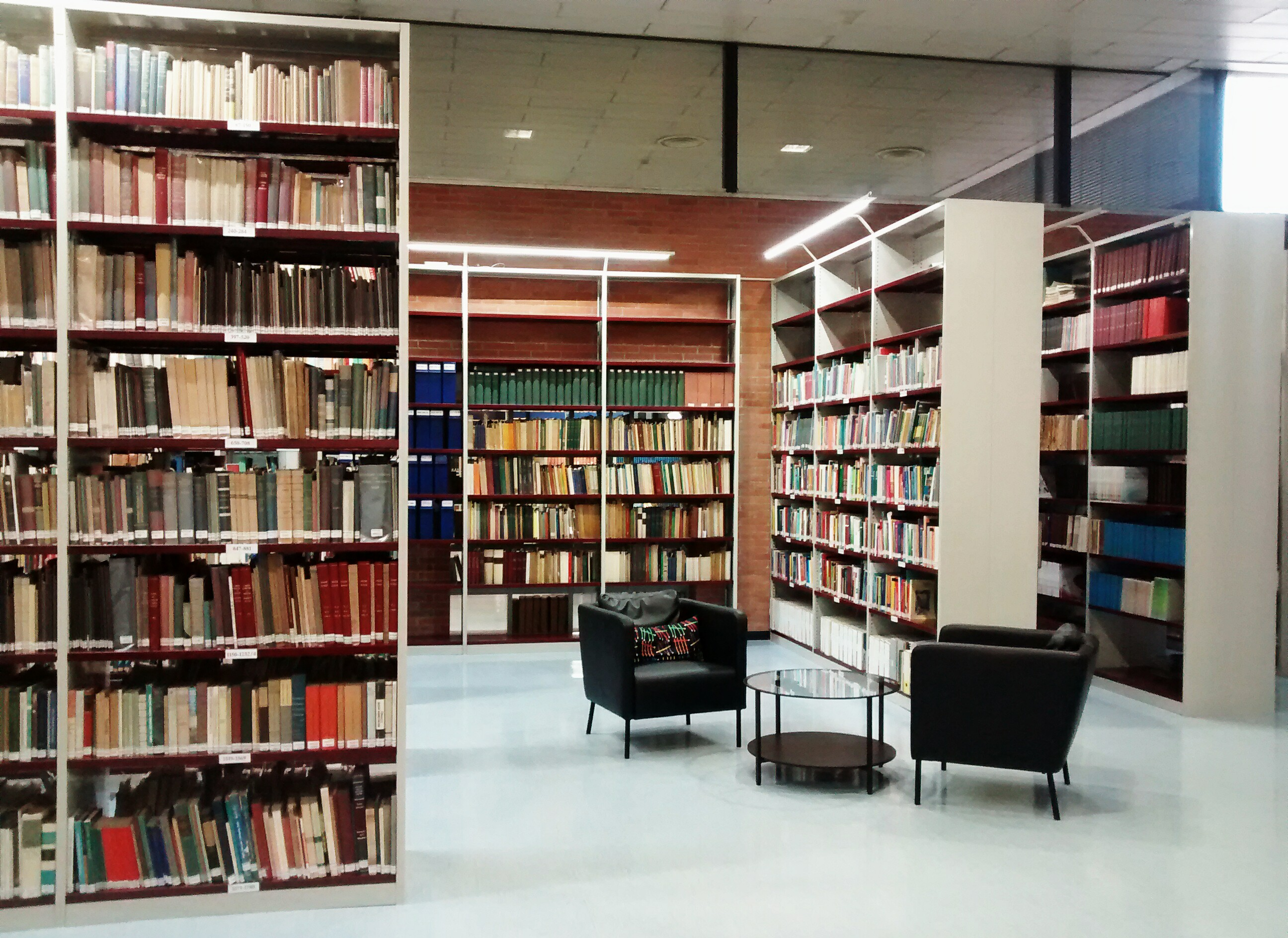 Italian Libraries Association - Library